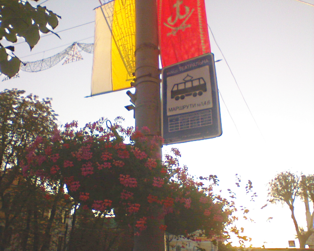 Tram stop sign in in Vinnytsya, Ukraine with a flower basket hanging on the pole